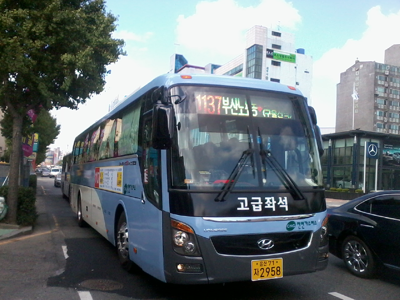 Ulsan Bus No.1137 Taehwagang Station ~ Busan Nopo Station